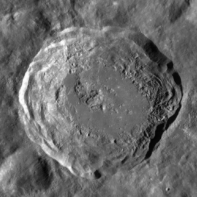 Ohm crater, on the far side of the moon. Mosaic of LRO WAC images.